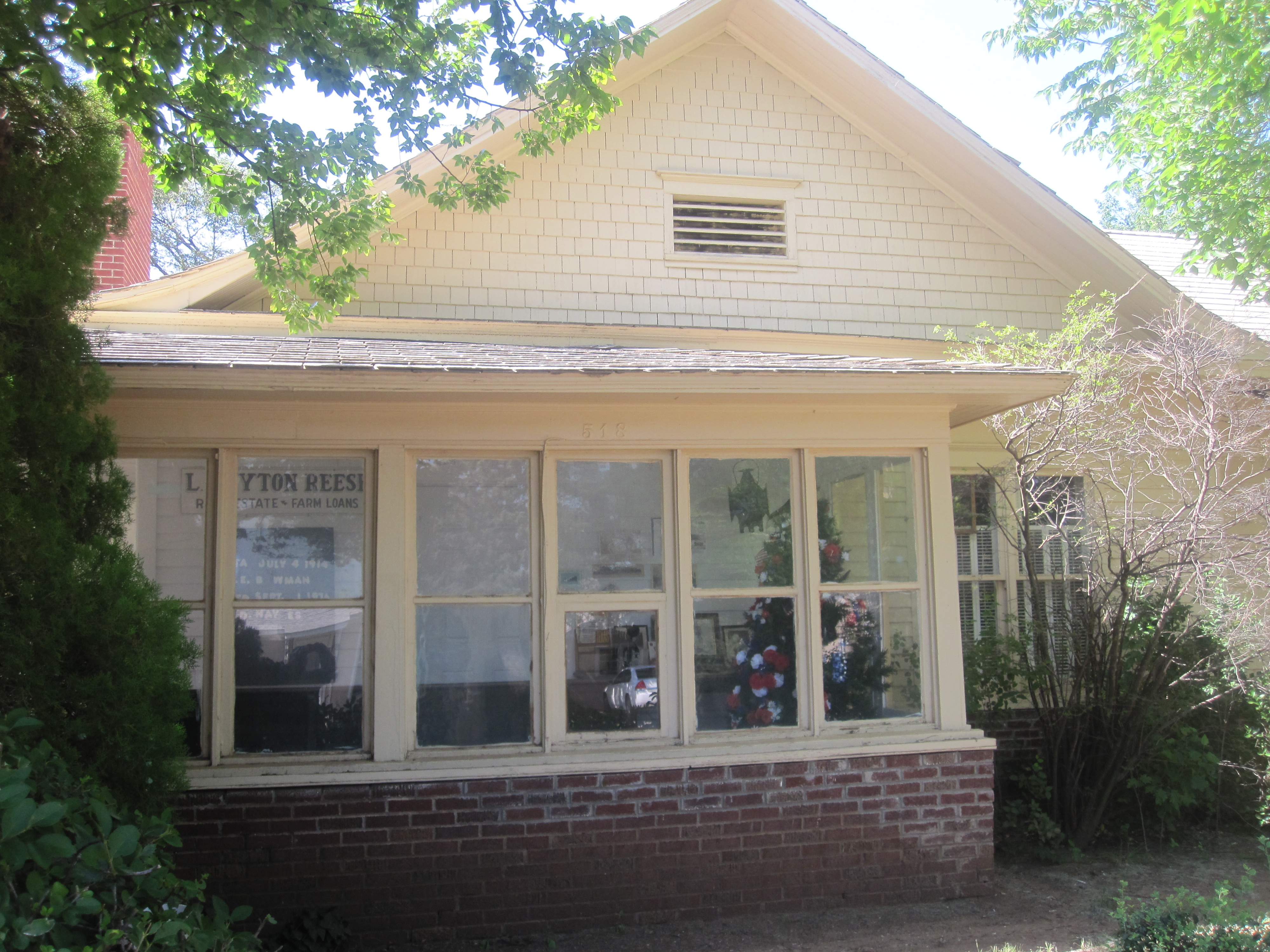 I took photo with Canon camera in Littlefield, TX.